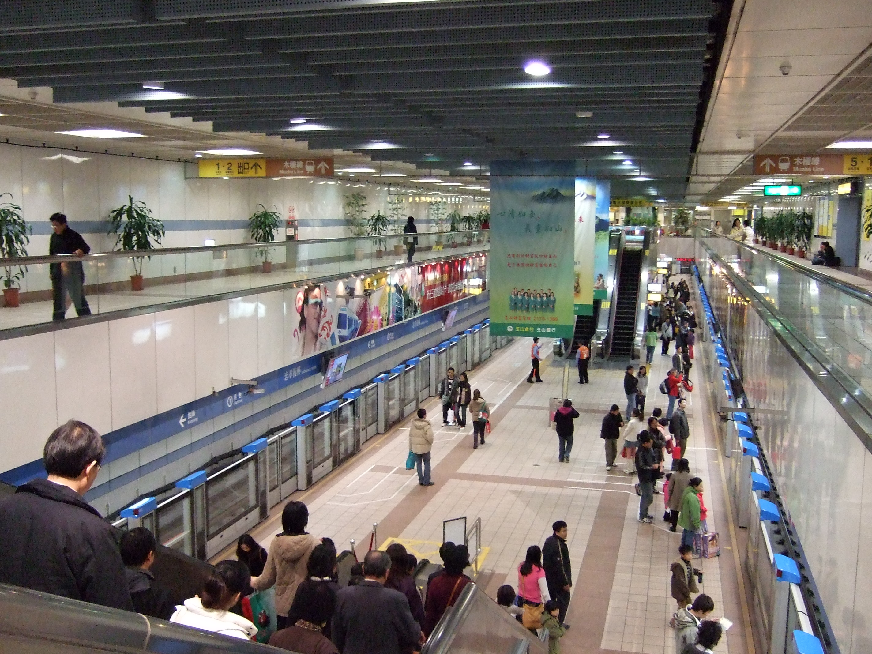 Platforms of Zhongxiao Fuxing Station, Taipei MRT.